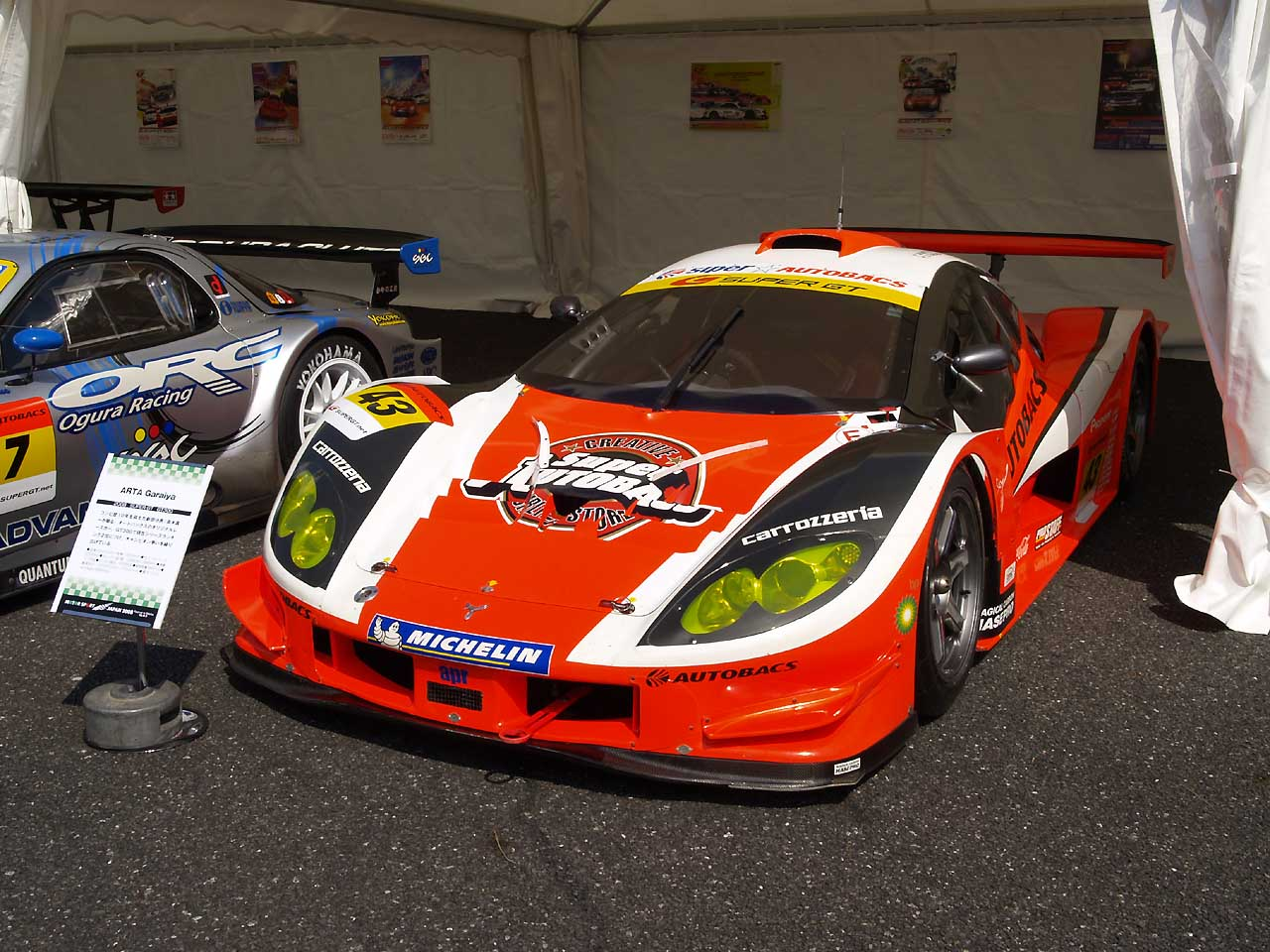 Autobacs Racing Team Aguri (ARTA) Garaiya version 2008 (for Super GT: GT300 class), shown in Motor Sport Japan 2008.